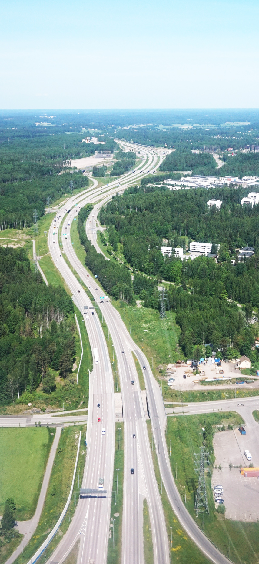 Main road 3 (E12, Hämeenlinnanväylä) in Vantaa, Finland.